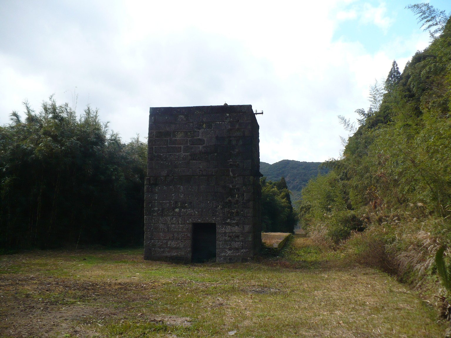 Ruin of Kamihioki station of Kagoshima kotsu, Hioki city Kagoshima prefecture Japan.